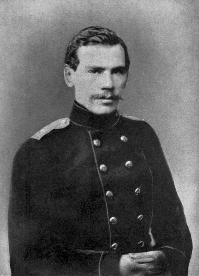 Leo Nikolayevich Tolstoy 1856